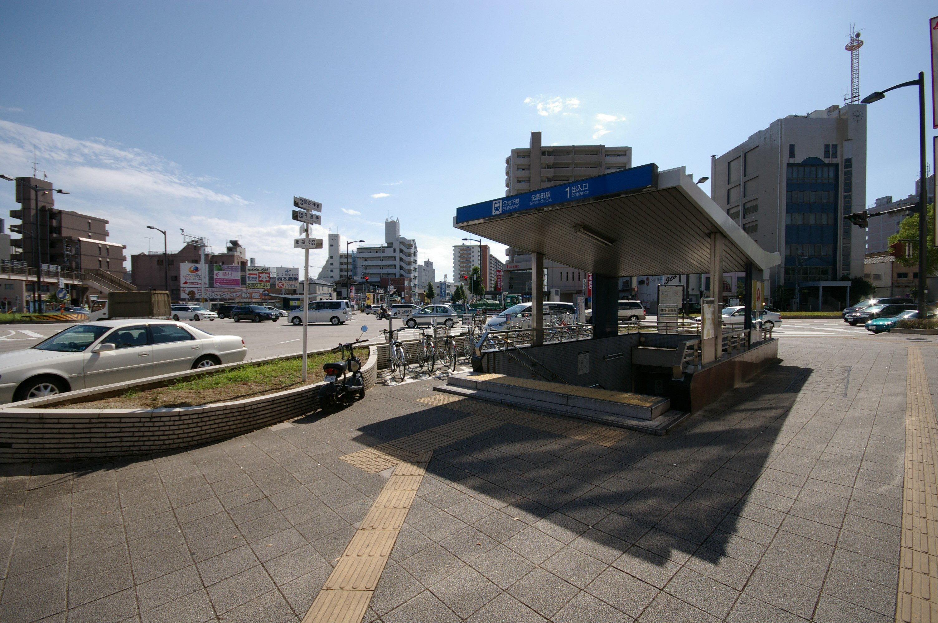 Nagoya Subway Tenma-Cho Station